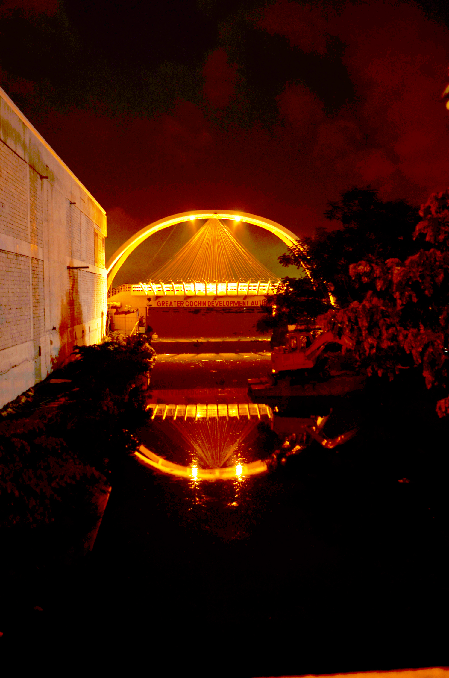 The Rainbow Bridge a night beauty, Marine Drive Kochi